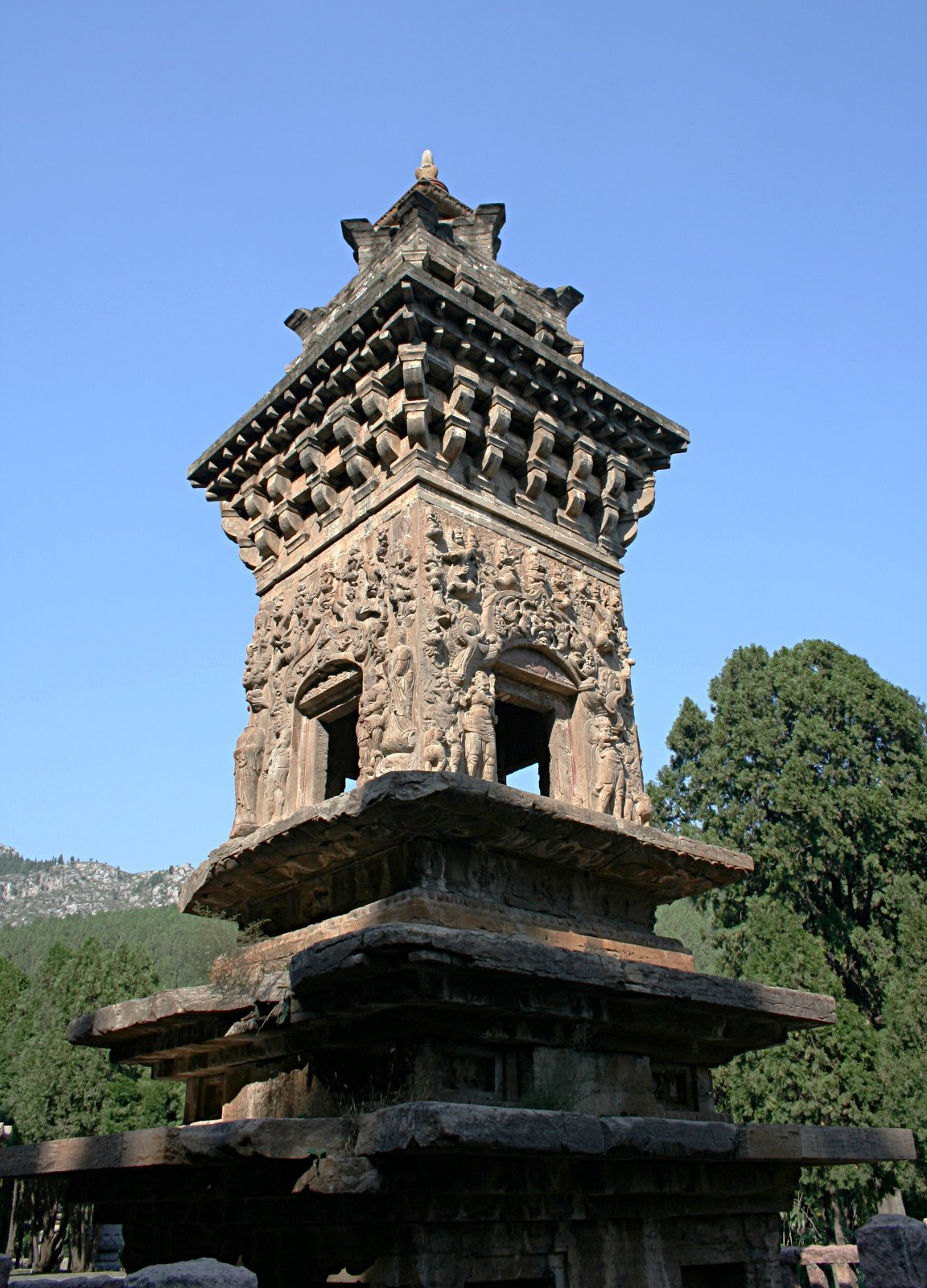 Photograph of the Dragon-and-tiger pagoda in Shandong Province, China